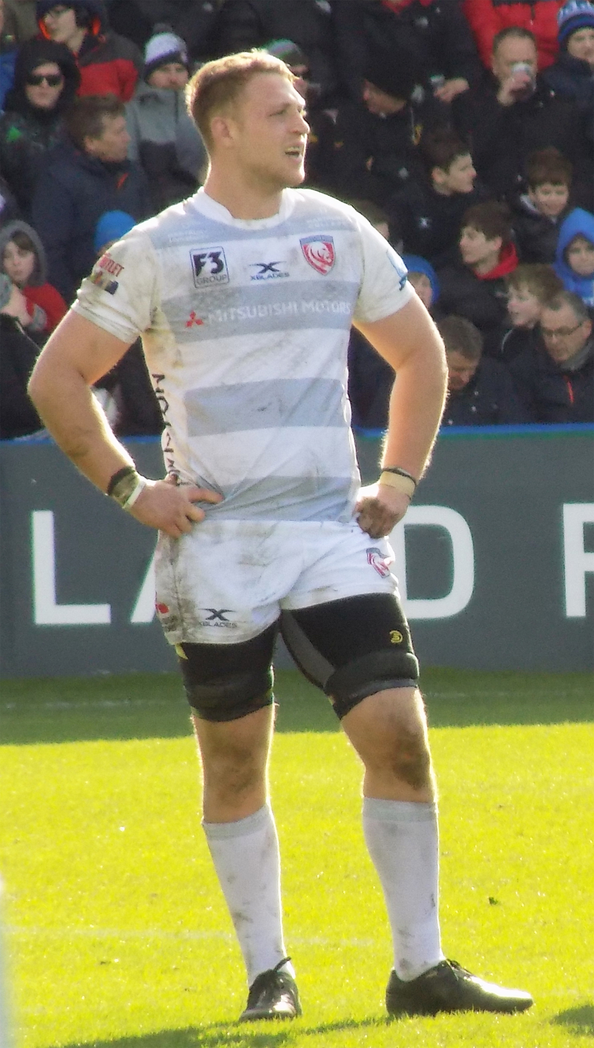 Ruan Askermann playing for Gloucester Rugby Union, 2019. Huge away win over Quins.